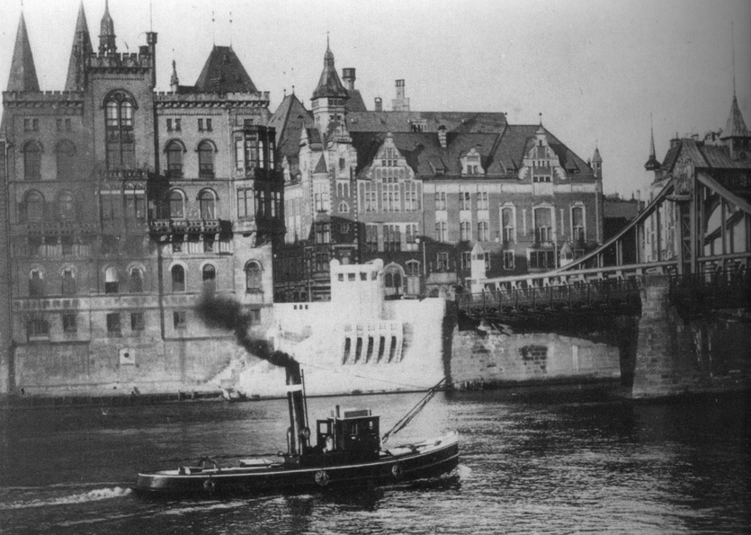 Old photo of the waterfront of the Weser river in Bremen, showing (from the left): the Haus von Kapff (great wine merchant) with the towers of the catheral in the background and the Franzius memorial next to it, the Union von 1801 building and the Große Weserbrücke.